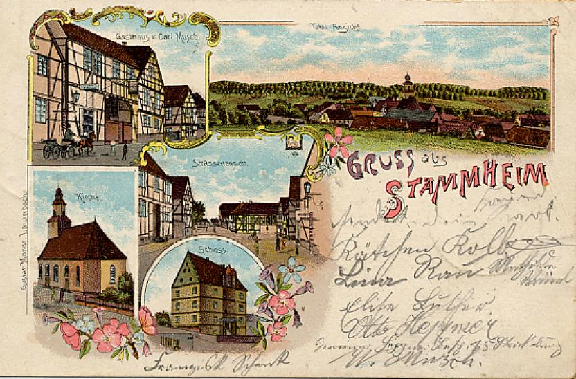 Florstadt-Stammheim at about 1900 in Hesse, not Stuttgart-Stammheim